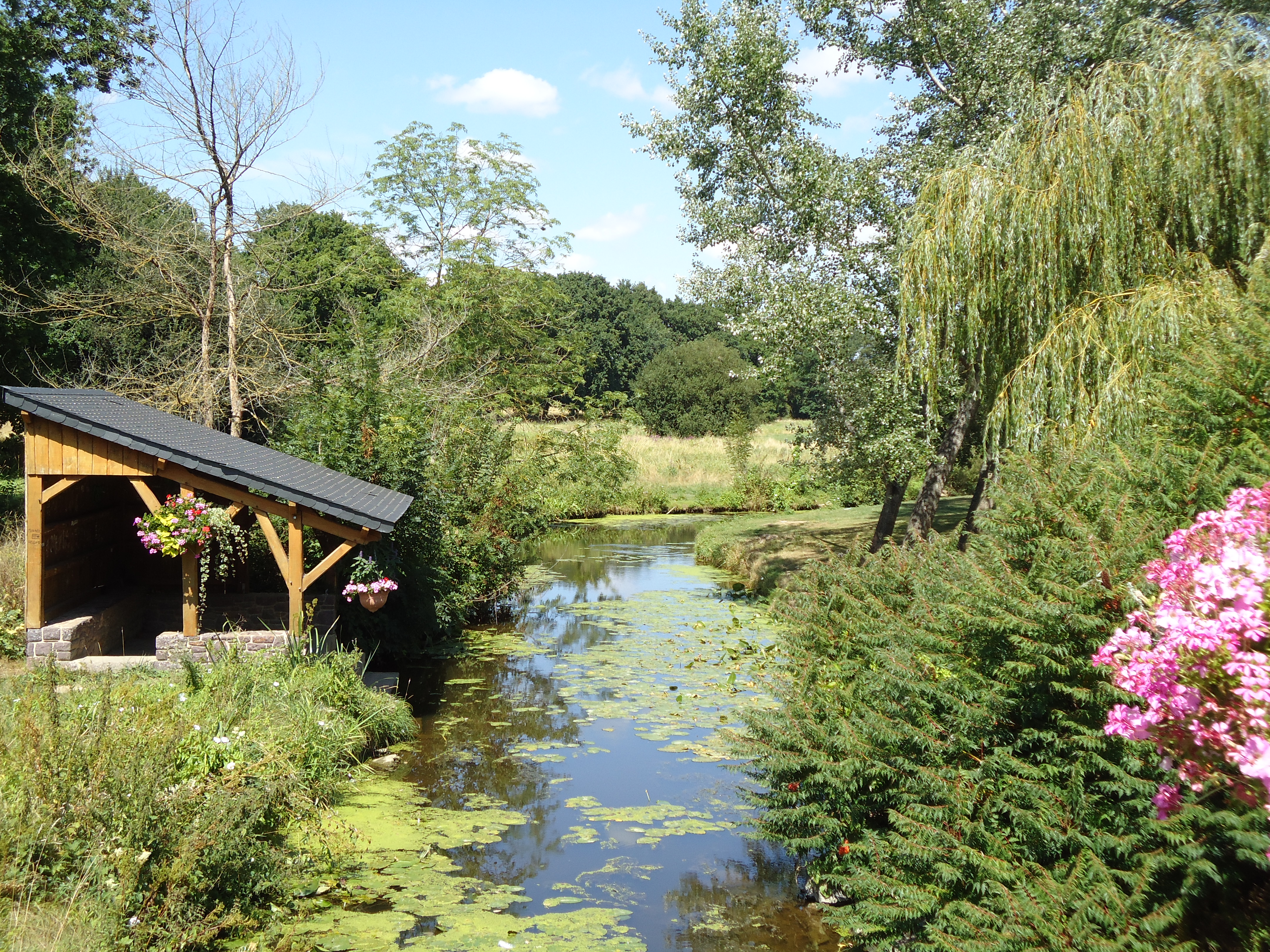 Pond of legends in Montfort-sur-Meu